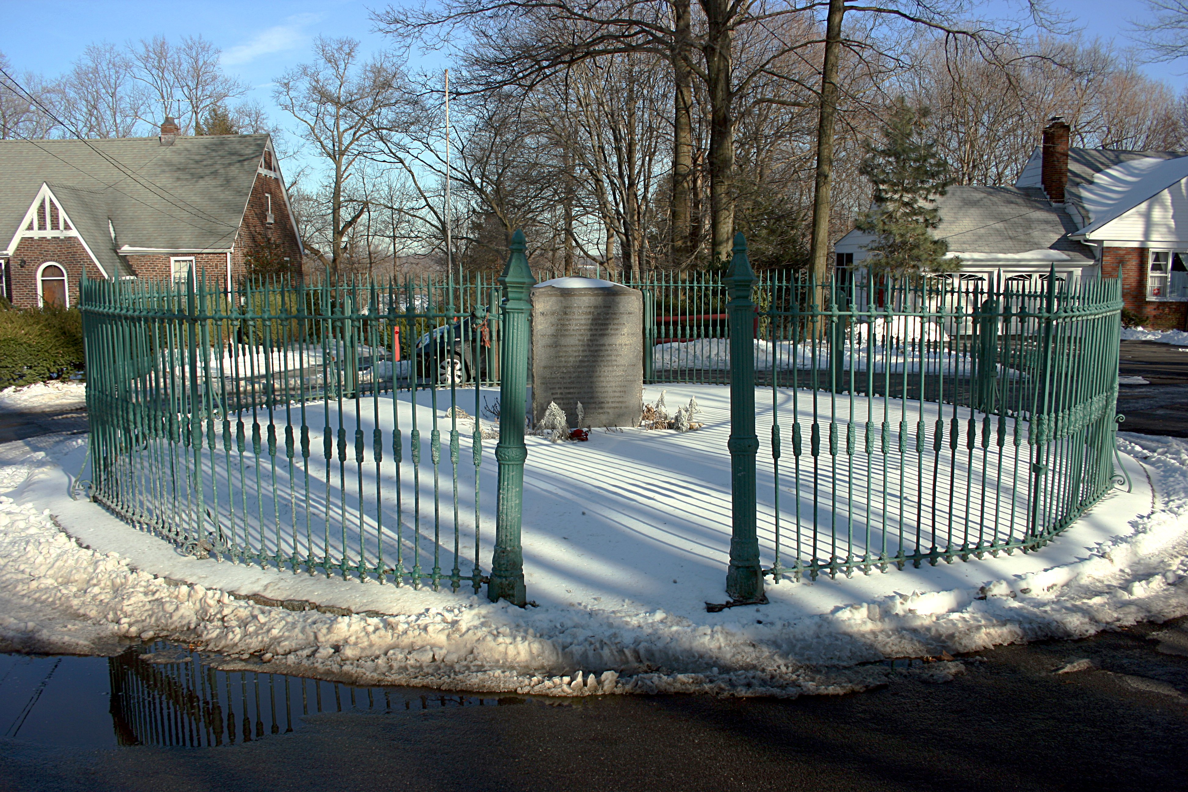 Photograph of the memorial to John André at the site where he was hanged in Tappan, New York, USA.